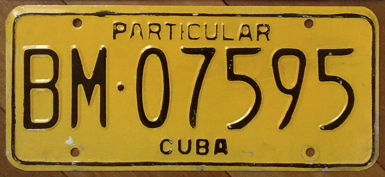 1978-2002 license plate from La Habana province, Cuba. The photo shows a plate from my collection.